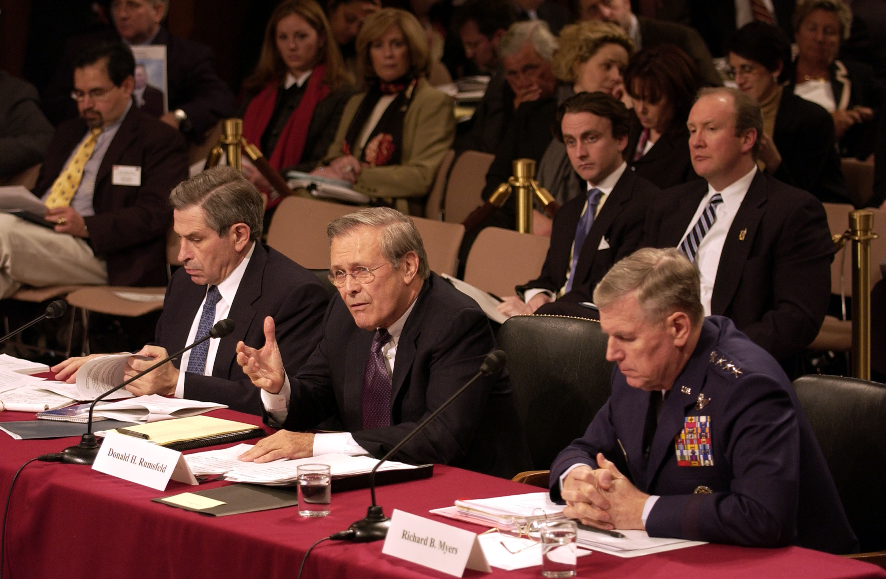 Secretary of Defense Donald H. Rumsfeld gives his opening remarks before the 9-11 Commission on March 23, 2004. Rumsfeld testified before the National Commission on Terrorists Attacks that is investigating the formulation of U.S. counterterrorism policy with particular emphasis on the period from the August 1998 embassy bombings in Africa to the September 11, 2001, attacks on America.